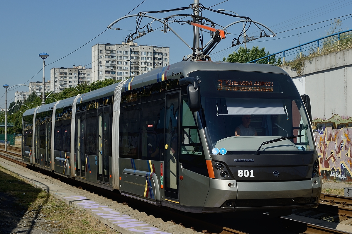 Elektron T5B64 801 in Kyiv